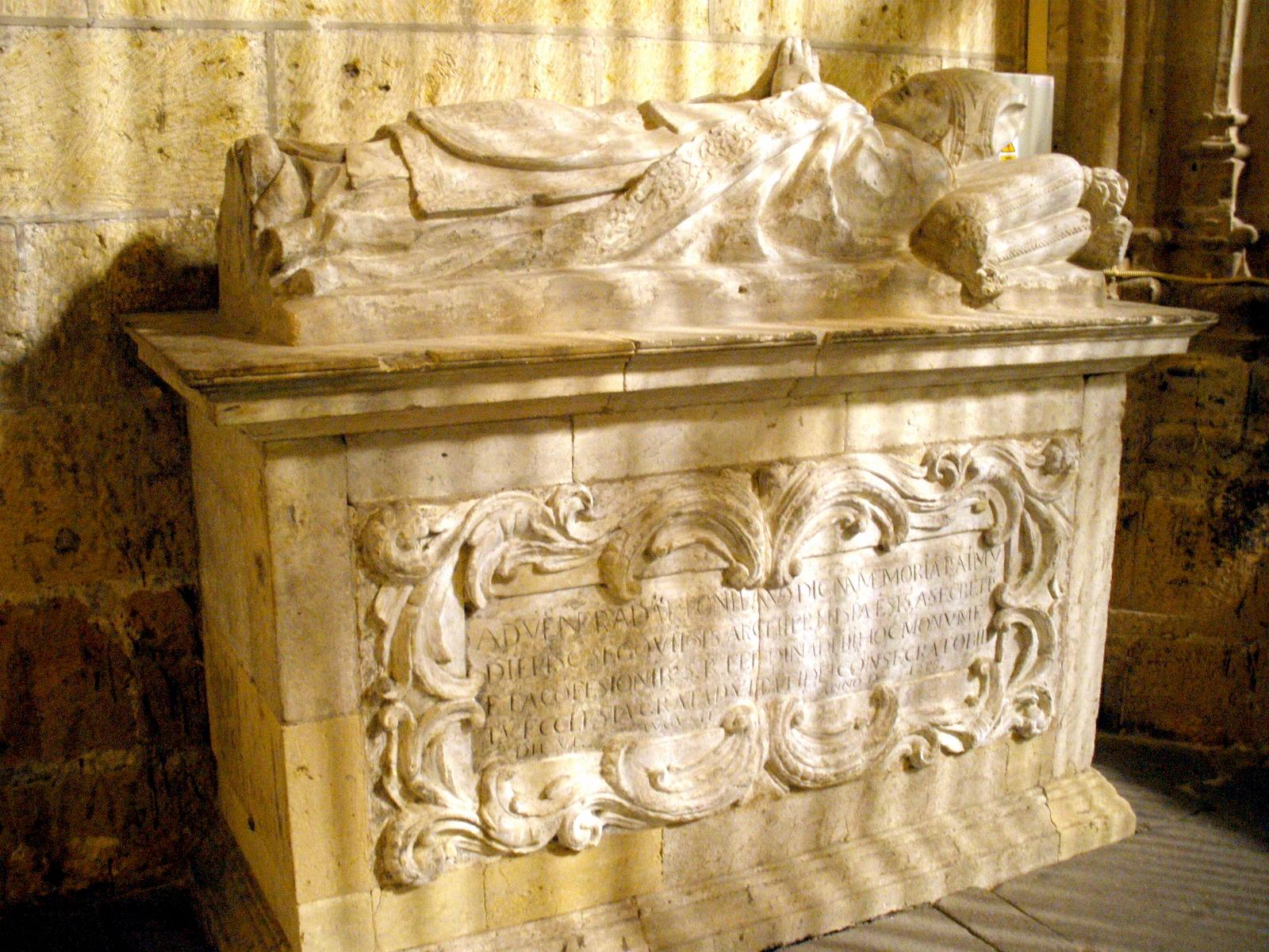 Sepulcro del Obispo Raimundo de Losana, en la Capilla del Cristo del Consuelo de la Catedral de Segovia (España). Segovia Cathedral Native nameCatedral de Santa María de SegoviaLocationSegovia , (Spain)Coordinates40° 57′ 00.65″ N, 4° 07′ 32.24″ W EstablishedMiddle AgeWeb page control : Q1499912 VIAF: 151939123 ISNI: 0000 0001 0672 8869 LCCN: n81124924 NLA: 36562756 BIC: RI-51-0000862 WorldCat institution QS:P195,Q1499912